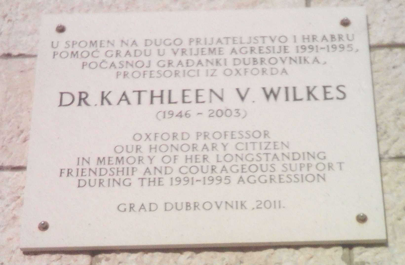 Plaque in a tribute to Kathleen Wilkes, Pile,Dubrovnik